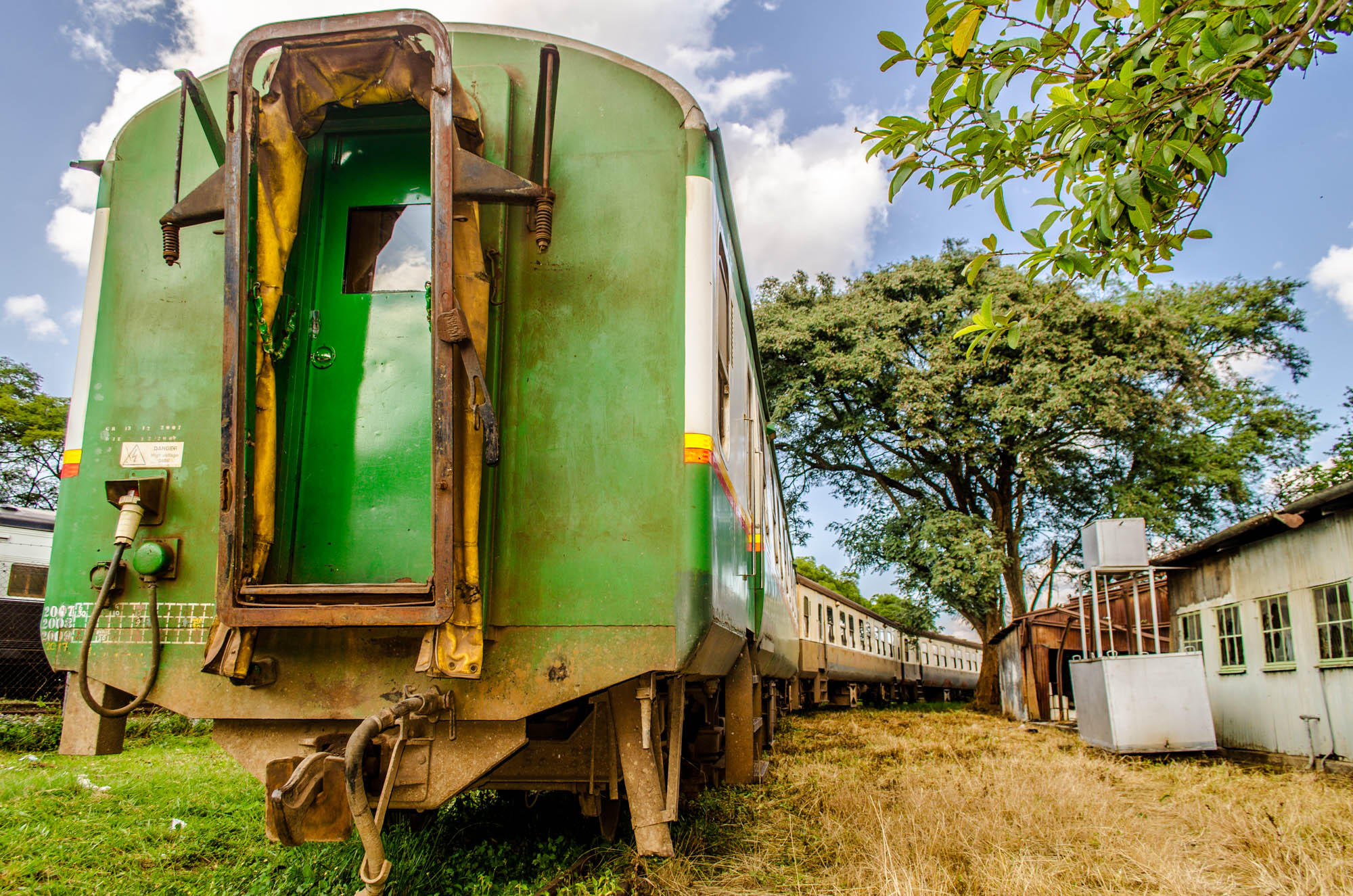 The picture shows one of the old commuter train , was taken in Nairobi at the old railway station situated in the city of Nairobi the train is still in use for transportation between Nairobi Railway Station and the following destinations: Ruiru, Syokimau Jomo Kenyatta International Airport, Kikuyu, and Embakasi Village This is an image with the theme "Africa on the Move or Transport" from: Kenya